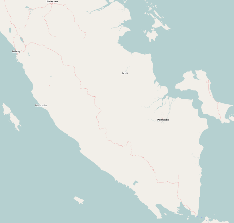 Map of Southern Sumatra, Indonesia Geographic limits of the map: N: 0.57° S: -6.07° W: 99.89° E: 106.87°